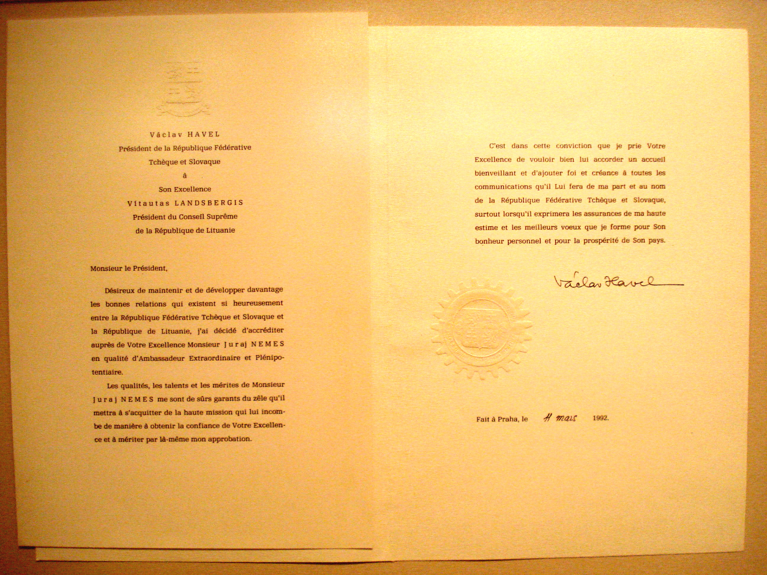 The letter of credence by Václav Havel grants diplomatic accreditation to Juraj Nemeš as ambassador of the Czech and Slovak Federative Republic to Lithuania. 1992